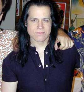 Taken by myself.